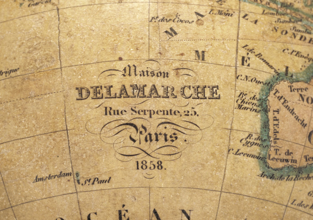 AuthorMaison DelamarcheDescription